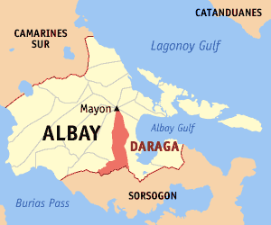 Locator map of Daraga in Albay, Philippines.